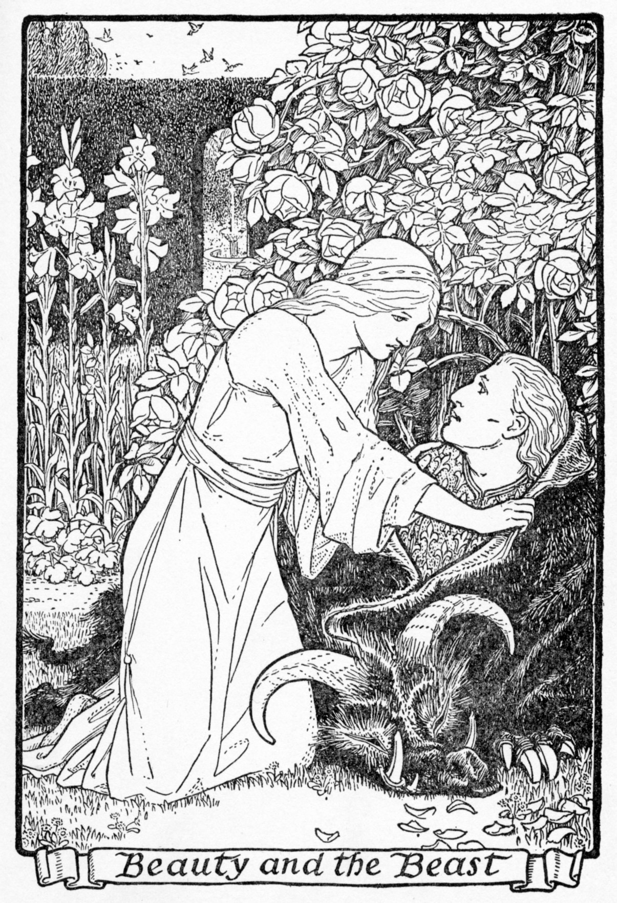 Batten - Europa's Fairy Tales